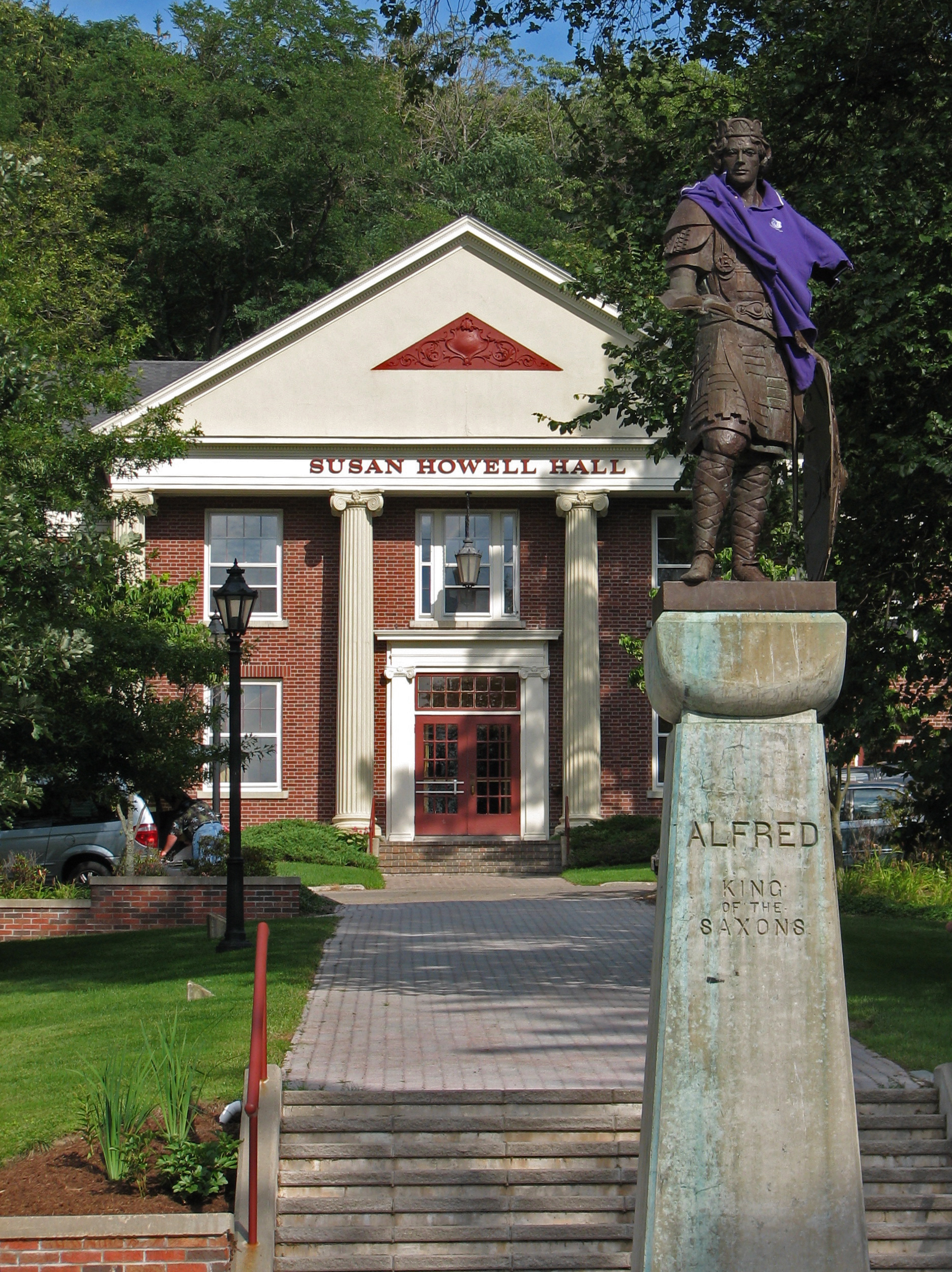 This statue of King Alfred is located at the center of Alfred University's quad in Alfred, New York. In the background is Susan Howell Hall. The statue is often decorated by students; in this picture, he is wearing one of the purple shirts worn by student Orientation Guides (OGs) during the 2006 freshman orientation.